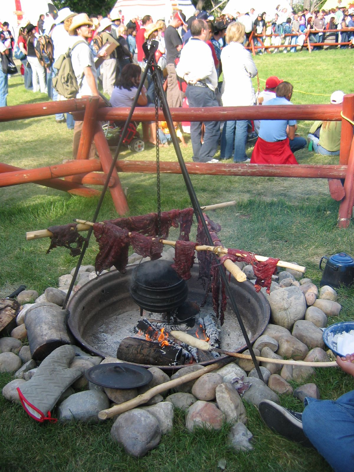 Preparing pemmican at Calgary Stampede. Traditionally, pemmican was prepared from the lean meat of large game such as buffalo, elk or deer. The meat was cut in thin slices and dried over a slow fire, or in the hot sun until it was hard and brittle. In some cases, dried fruits such as saskatoon berries, cranberries, blueberries, or choke cherries were pounded into powder and then added to the meat/fat mixture. The resulting mixture was then packed into rawhide pouches for storage.